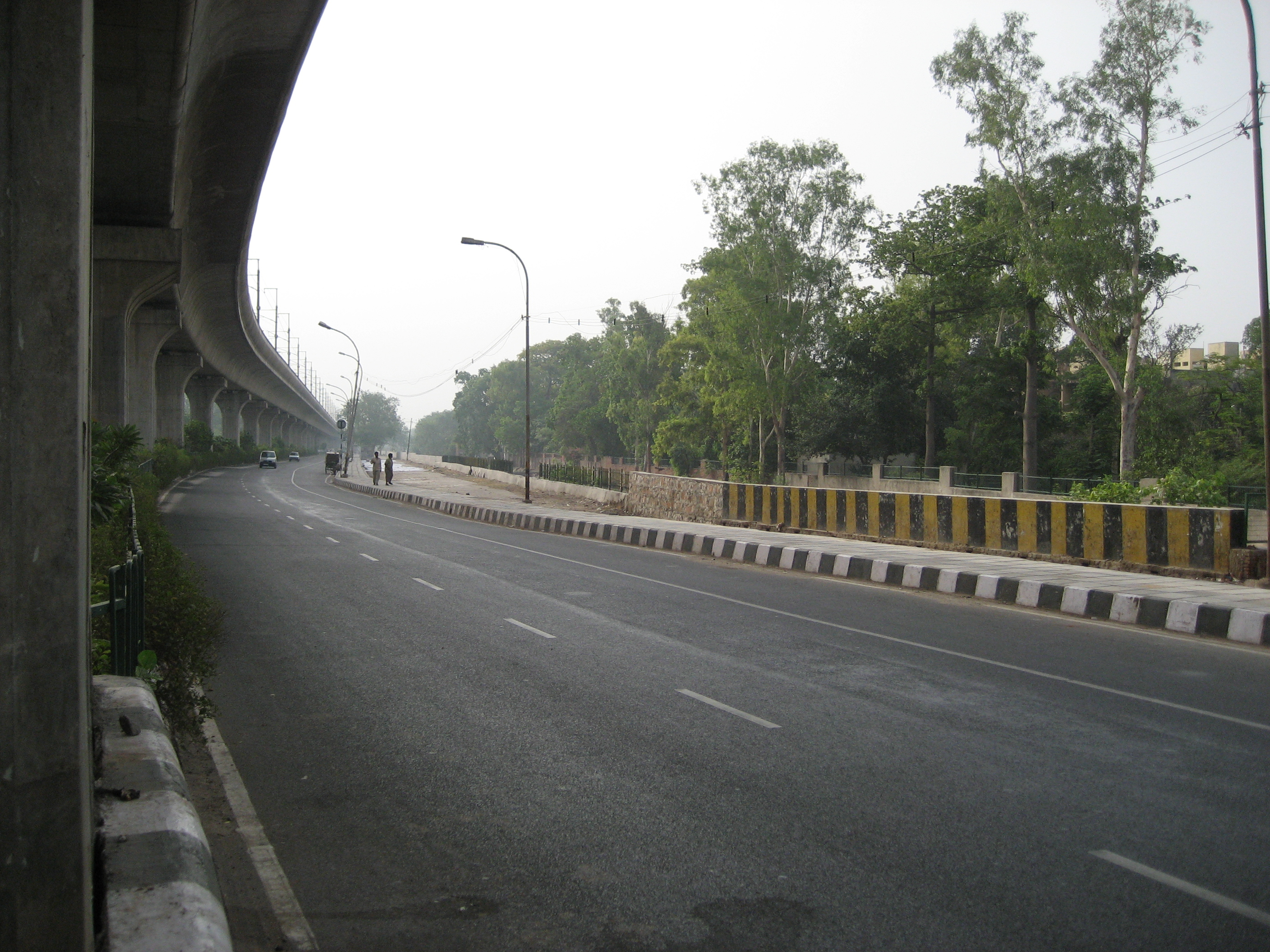 The Delhi Metro primarily runs on elevated tracks along road medians (it goes underground only near the downtown Connaught Place and Delhi University areas). Picture taken at Kalidas Marg near Gulabi Bagh.